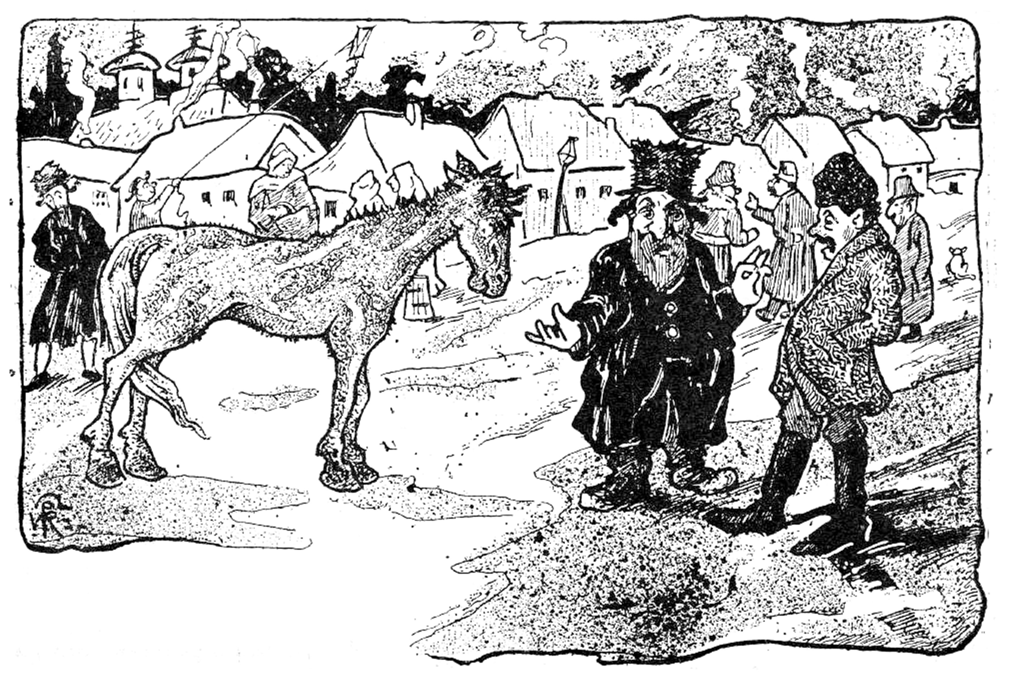 Între negustori de treabă ("Among Honest Traders"), cartoon in the Romanian magazine Furnica. It portrays ethnic stereotypes in a bargaining situation: the traditionalist Jew as a middleman, the Romanian as the (not entirely honest) source of his revenue.The Jewish man: — Moi, bade Ivane, pentru di ce vrei tu să vinzi cală ăsta moi?... Tu nu vezi că-i mai gras şi decât tine? ("Ivan my man, vy is it dat you should vant to sell dat horse?... Do you not see eyt is faetter dan you are?")The Romanian: — Apoi să vezi, jupâne. Calul ăsta e un cal foarte bun; dar e de furat şi mi-e frică să nu mi-l fure şi mie altul! ("Well there you go, dear sir. This horse is of very good stock, but I stole it, and I'm afraid that someone else should steal it from me!").